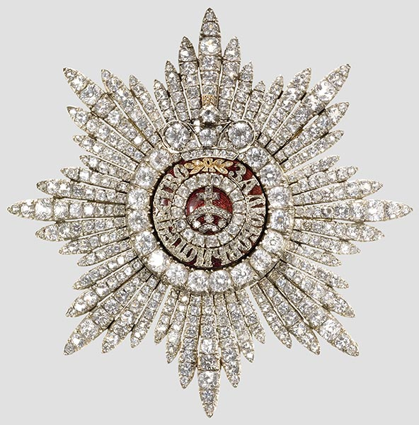 First class breast star, ca. 1860/70. Silver, the reverse center gold-plated, set with rock crystals, the crown and motto in the center with diamond roses. Hinged rays. No hallmarks. 94 mm, 88 g. Very fine jewellers' quality. The original diamonds have been changed for rock crystals, very probably by the recipient. Decorations with diamonds were manufactured by the most prominent jewellers of St. Petersburg (e.g. Bolin, Faberg‚, Hahn, W.Keibel, Säfftigen). Since they were delivered directly to the Cabinet of the Tsar and not to the chancellery of the Order they didn't have to be hallmarked.